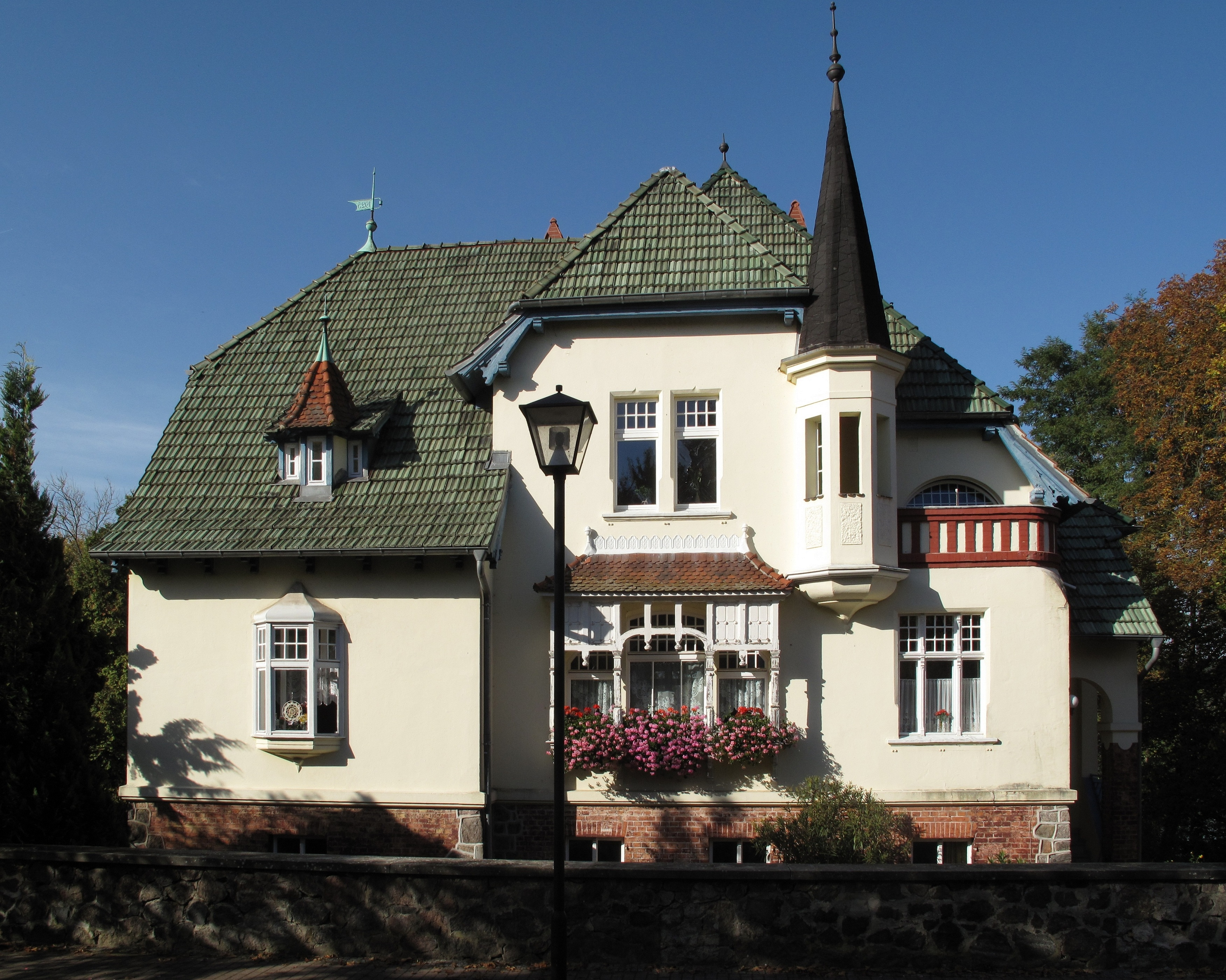 Listed villa in Buckow, District Märkisch-Oderland, Brandenburg, Germany. The villa is situated at the eastern shore of the Schermützelsee in the Bertolt-Brecht-Straße 20/21.